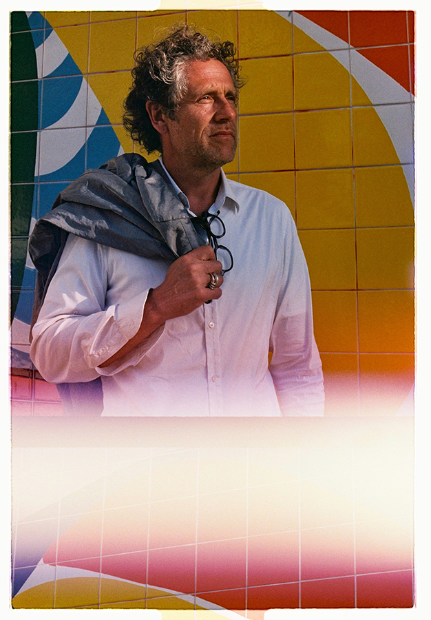 Portrait of photographer Uli Weber by Lily-Bertrand Webb